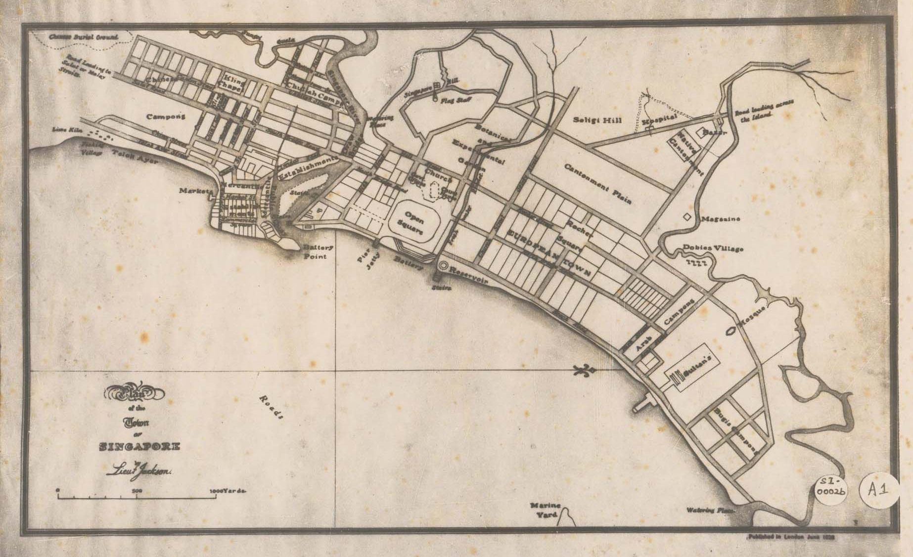 Plan of the Town of Singapore by Lieutenant Philip Jackson, who was the engineer and land surveyor tasked to oversee the physical development of Singapore. Commonly known as the Jackson Plan, it is now displayed in the Singapore History Gallery of the National Museum of Singapore.